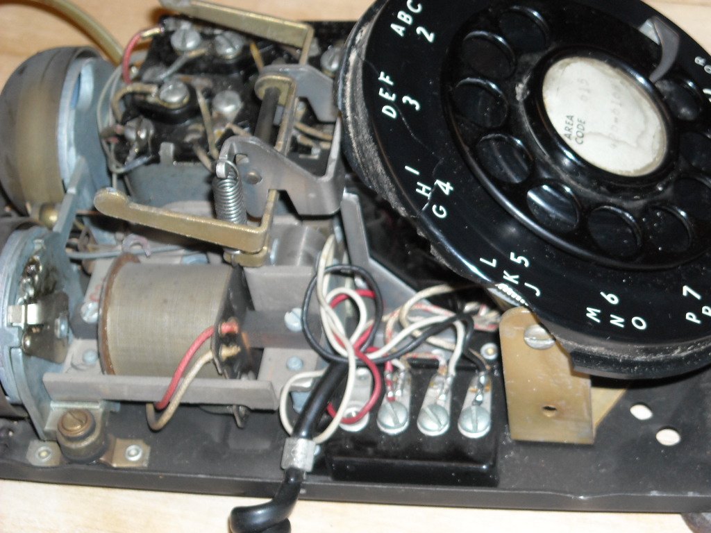 From my personal collection. The left side of the works of a model 500, dated 12/1951. This model has the separate board to wire the handset cord to which is visible in the lower center of the picture.